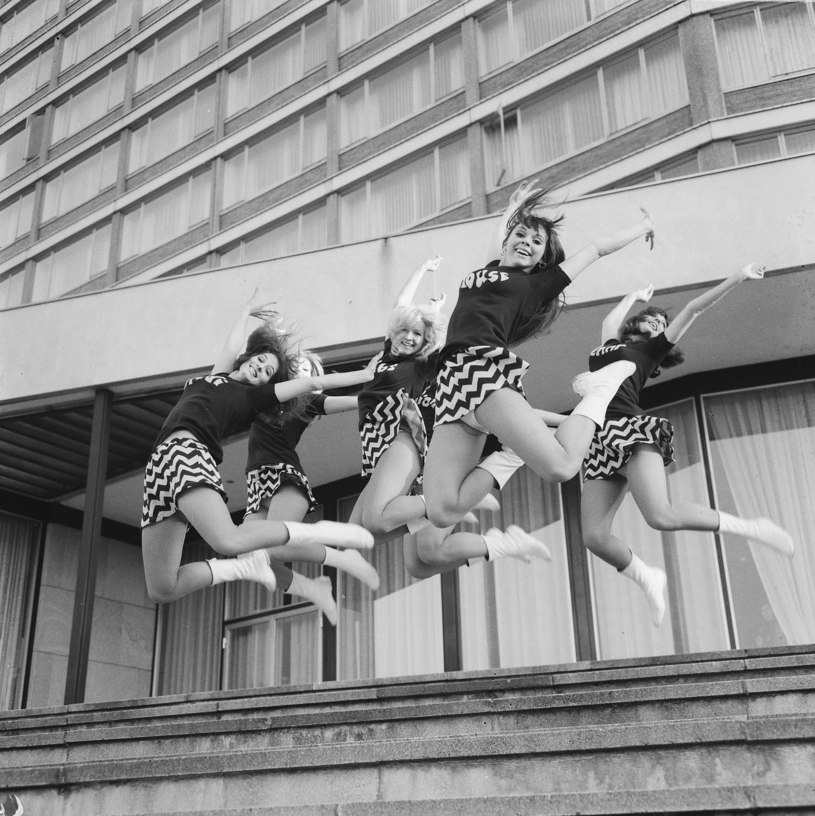 Beat Girls dancing in front of Amsterdam Hilton. From left: Dee Dee Wilde, Lorelly Harris, Babs Lord, Flick Colby and Penny Fergusson - Diane South obscured.